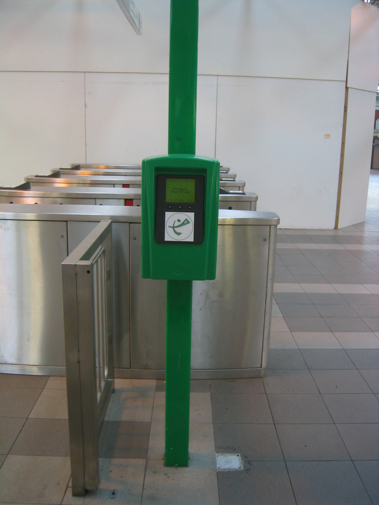 Transperth SmartRider Processor at Platform 4, Perth Train Station